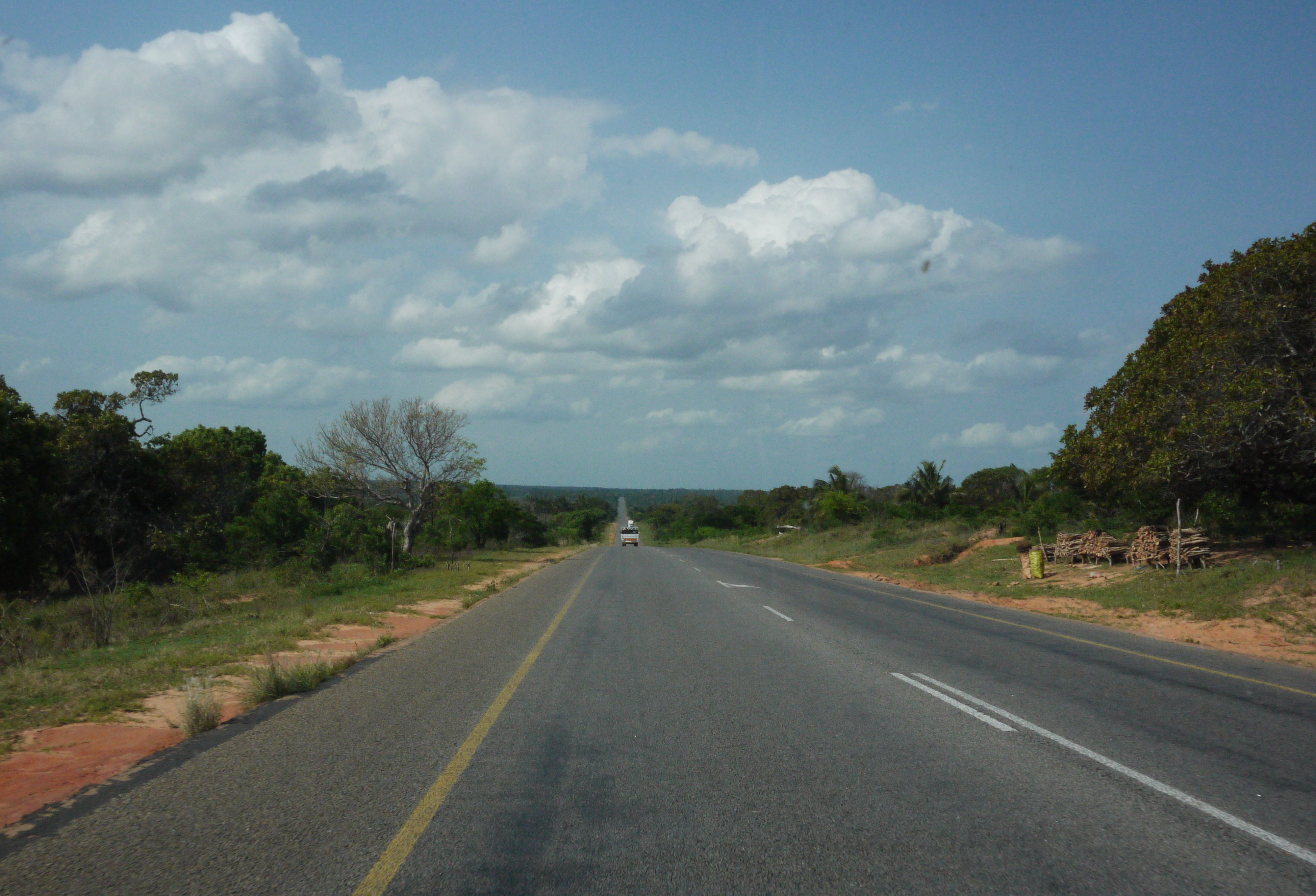 Highway EN4 in Mozambique